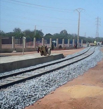 Railway track in the new train station in Niamey, Niger, in 2014